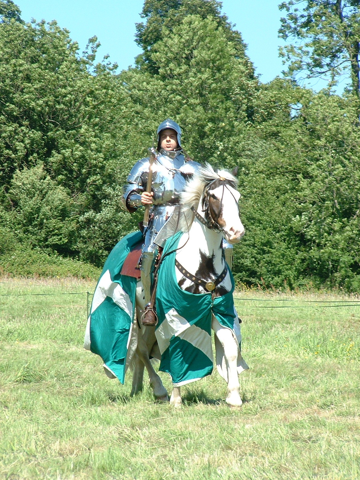 A knight at the "horsemen through the ages" display at Battle Abbey, Hastings